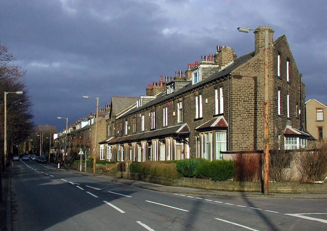 Wibsey Park Avenue, Bradford Looking east-northeast at the junction of Wibsey Park Avenue and Reevy Road.